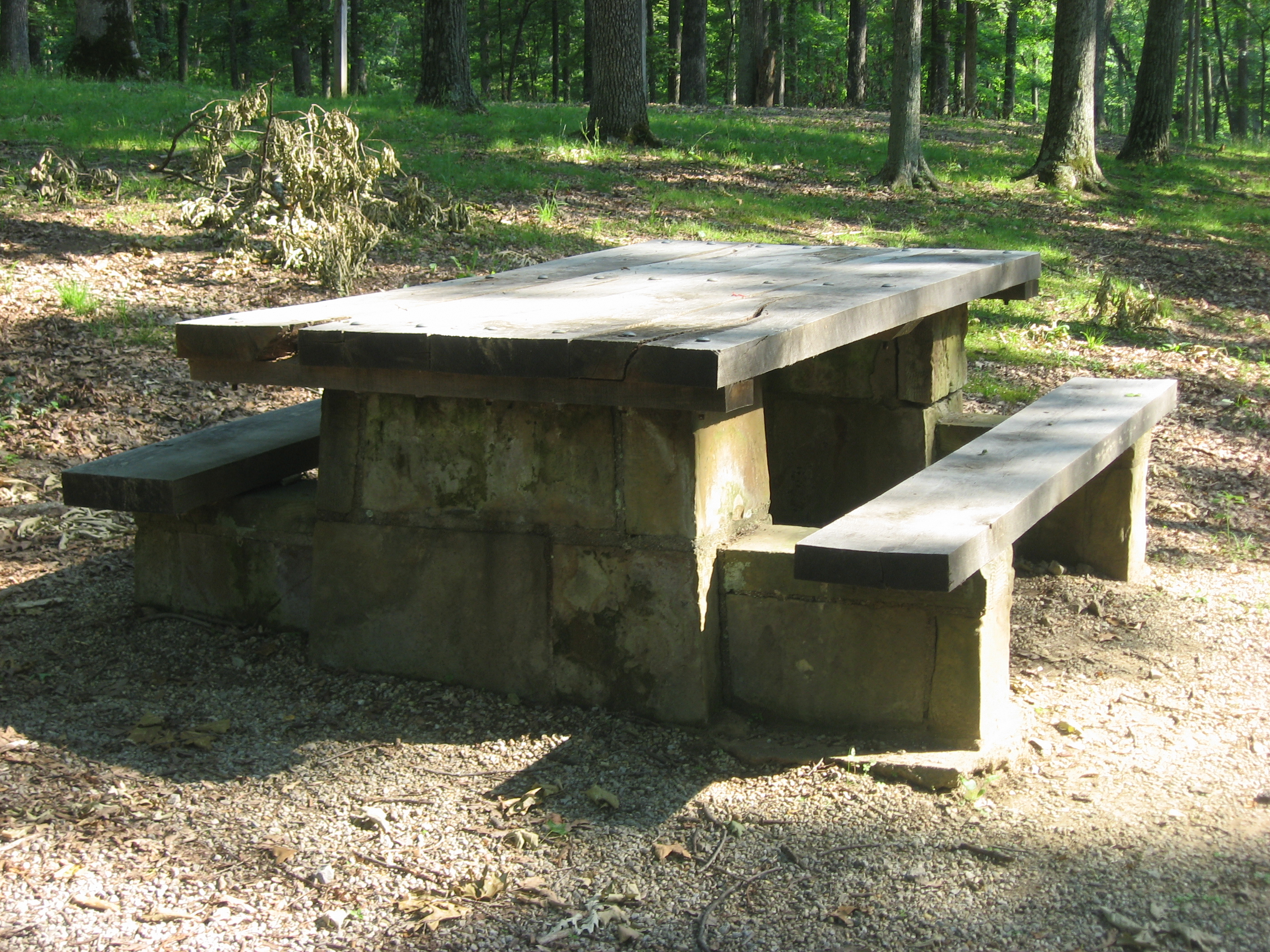 A stone picnic table at the picnic area in the Jackson-Washington State Forest, located southeast of Brownstown in Brownstown Township, Jackson County, Indiana, United States. Built in 1934 by the Civilian Conservation Corps, the picnic grounds are listed on the National Register of Historic Places.